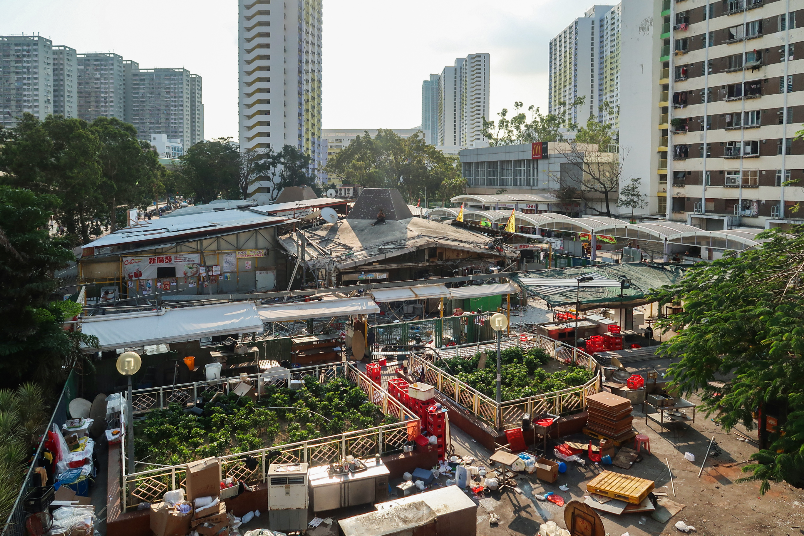 Sha Kok Estate Dai Pai Dong Demolishion